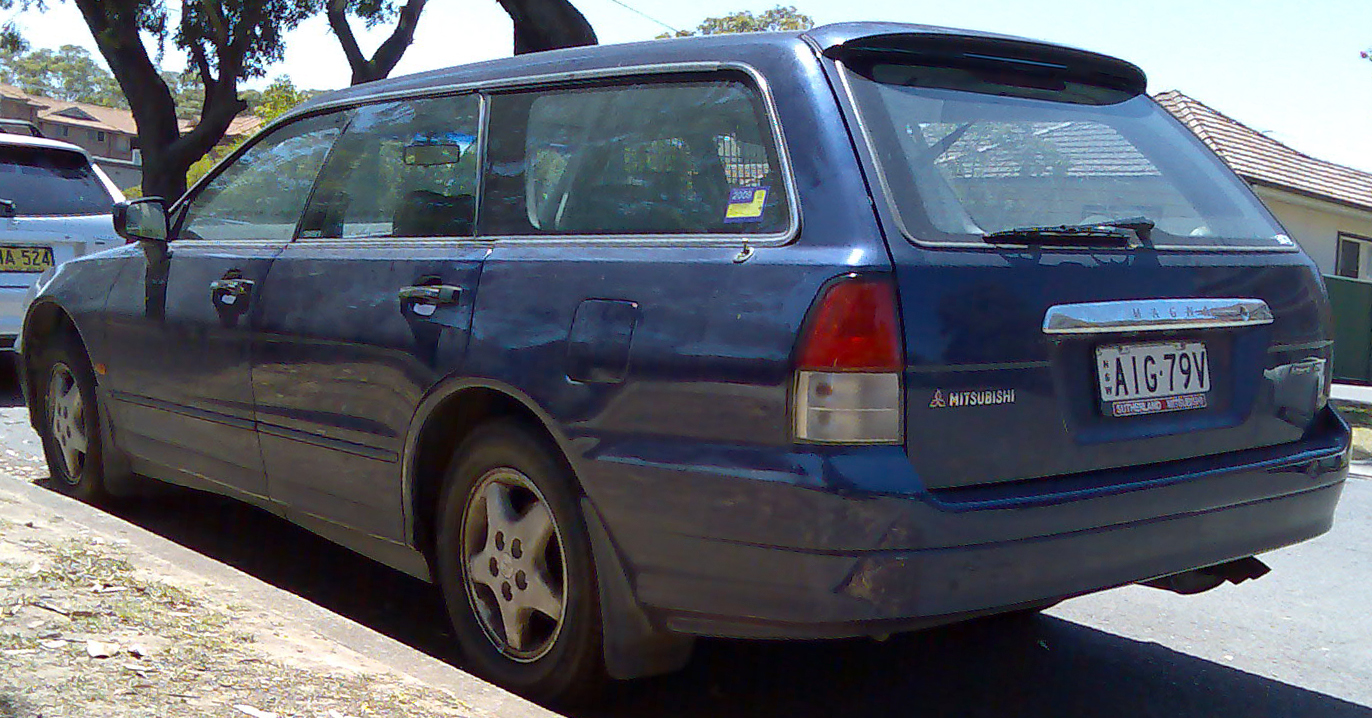 1998 Mitsubishi Magna (TF) Altera LS station wagon. Photographed in Gymea, New South Wales, Australia.